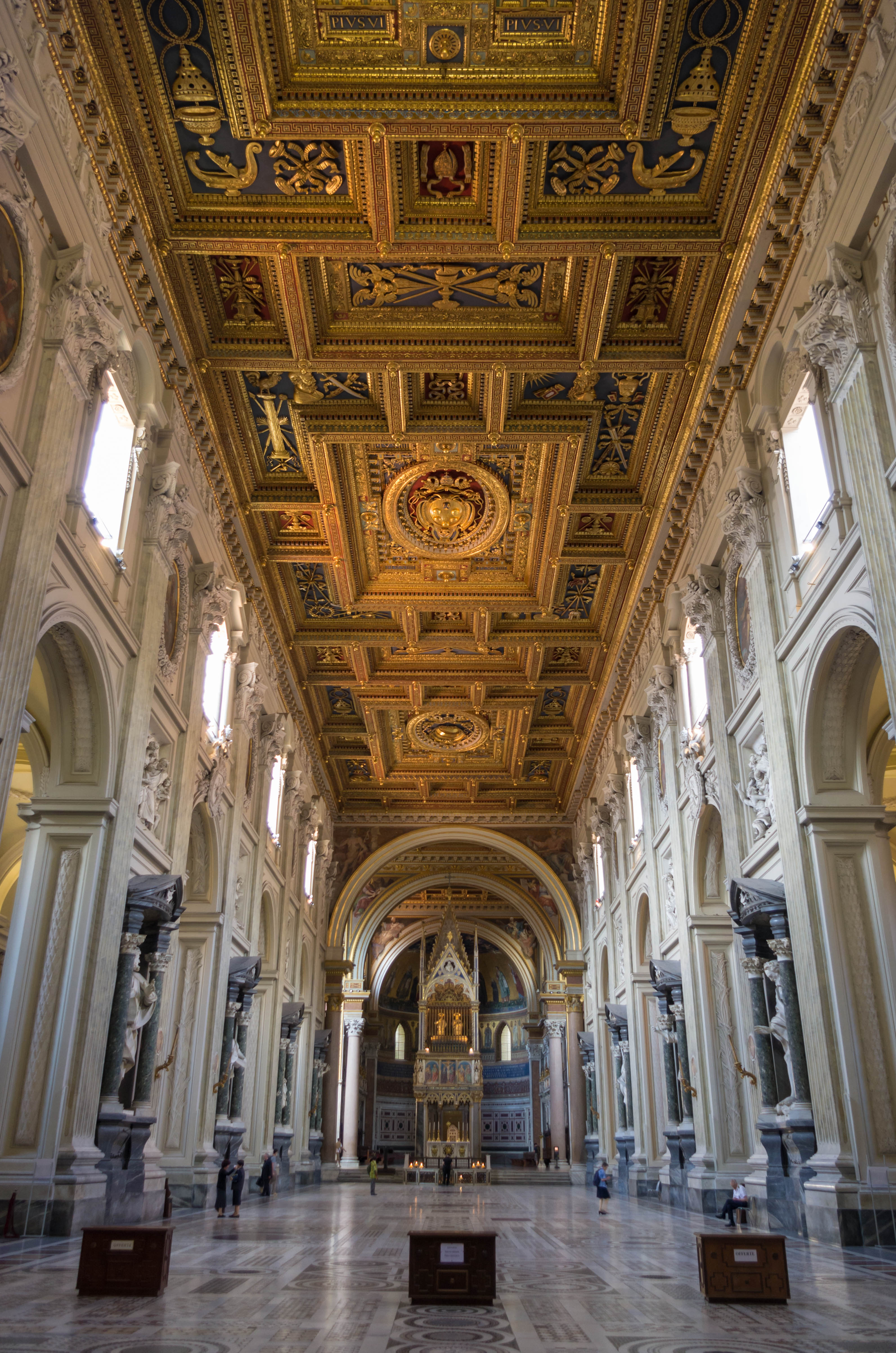 San Giovanni in Laterano (Rome) - Interior